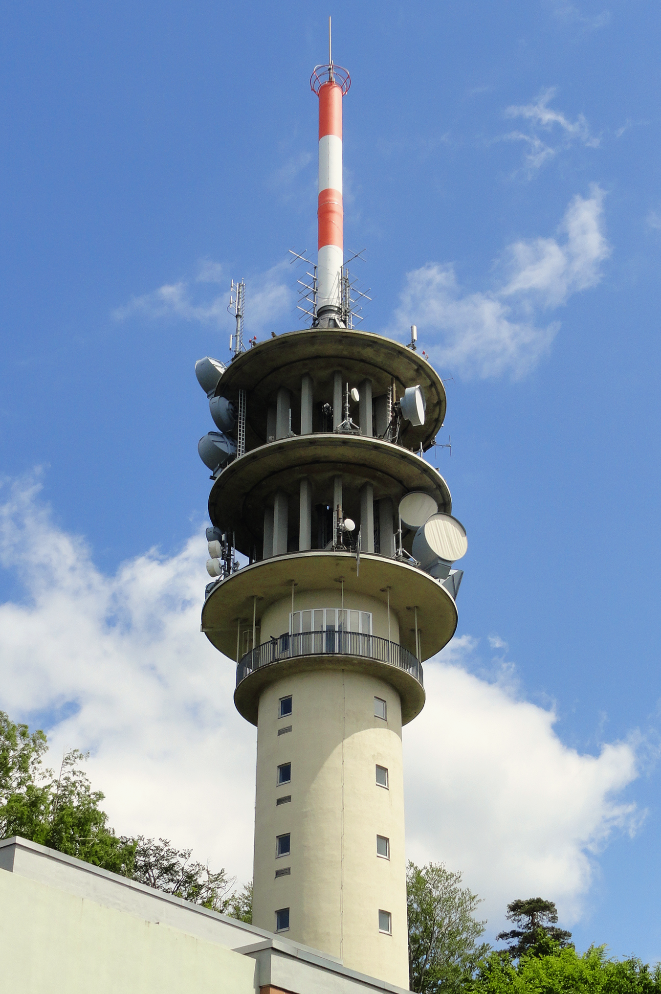 Radio Transmitter Station "Fremersberg (Baden-Baden)